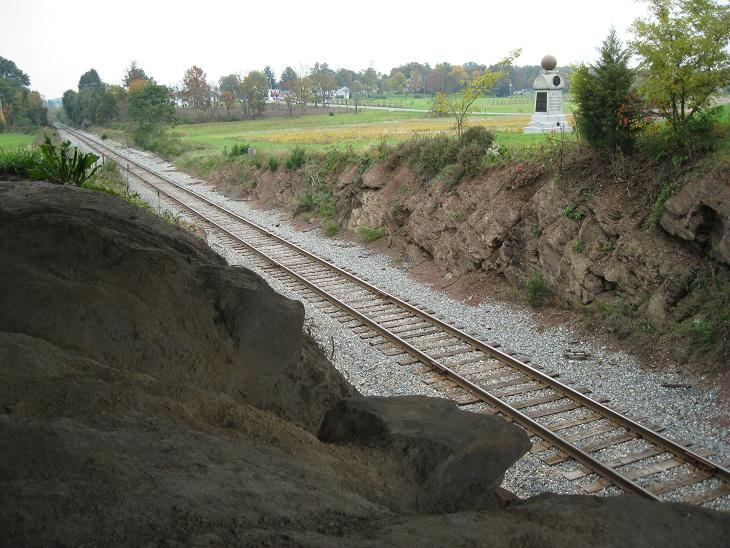 McPherson railroad cut at the Gettysburg Battlefield, looking southeast from the North Reynolds Avenue overpass. The 95th New York Infantry Monument is at upper right.